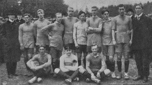 Sweden national football team in Helsinki 1911.